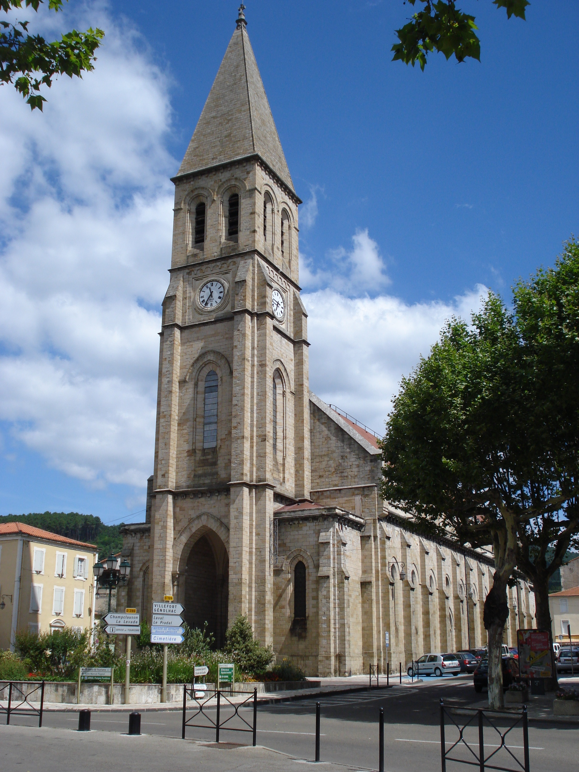 La Grand-Combe (Gard, Fr), church